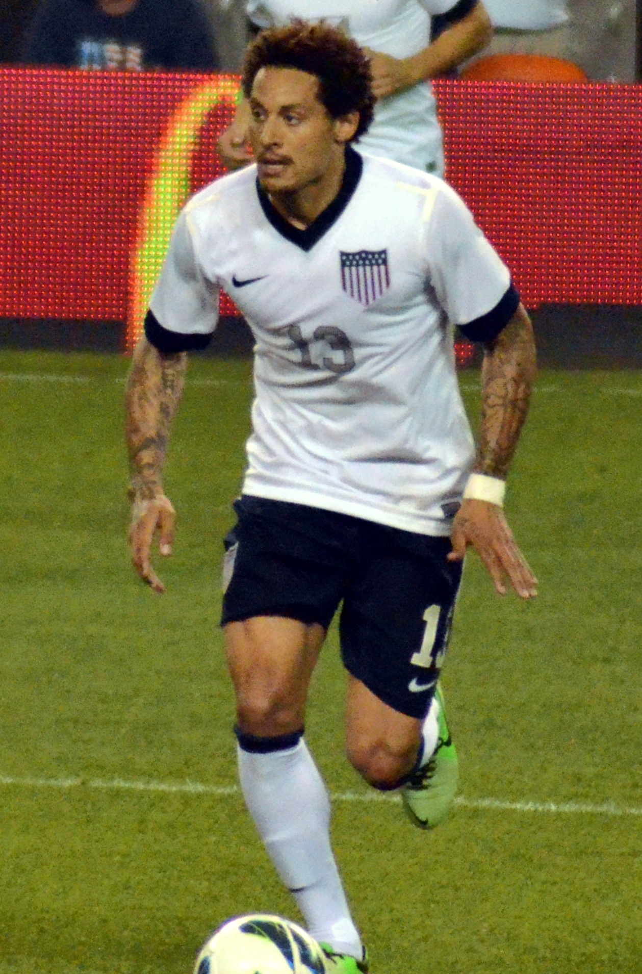 Jermaine Jones playing for the United States men's national soccer team against Belgium national football team in 2013